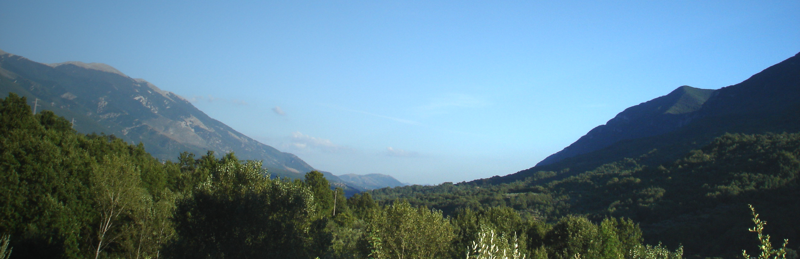 Roveto Valley